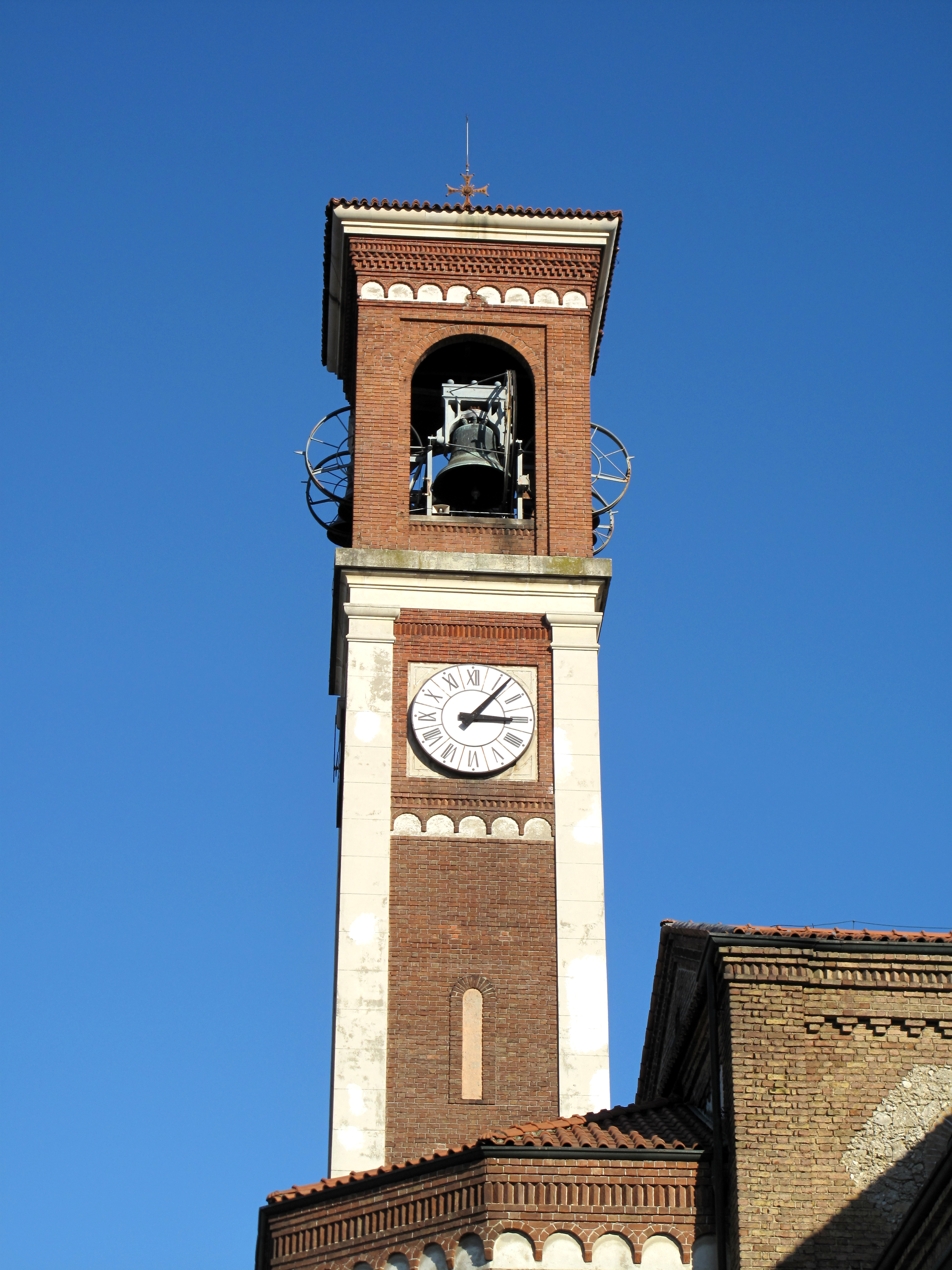 Bell tower - Church of Santa Margherita in Usmate Velate (MI)